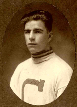 Ice hockey player Hooley Smith with the Toronto Granites in the 1921–22 season.